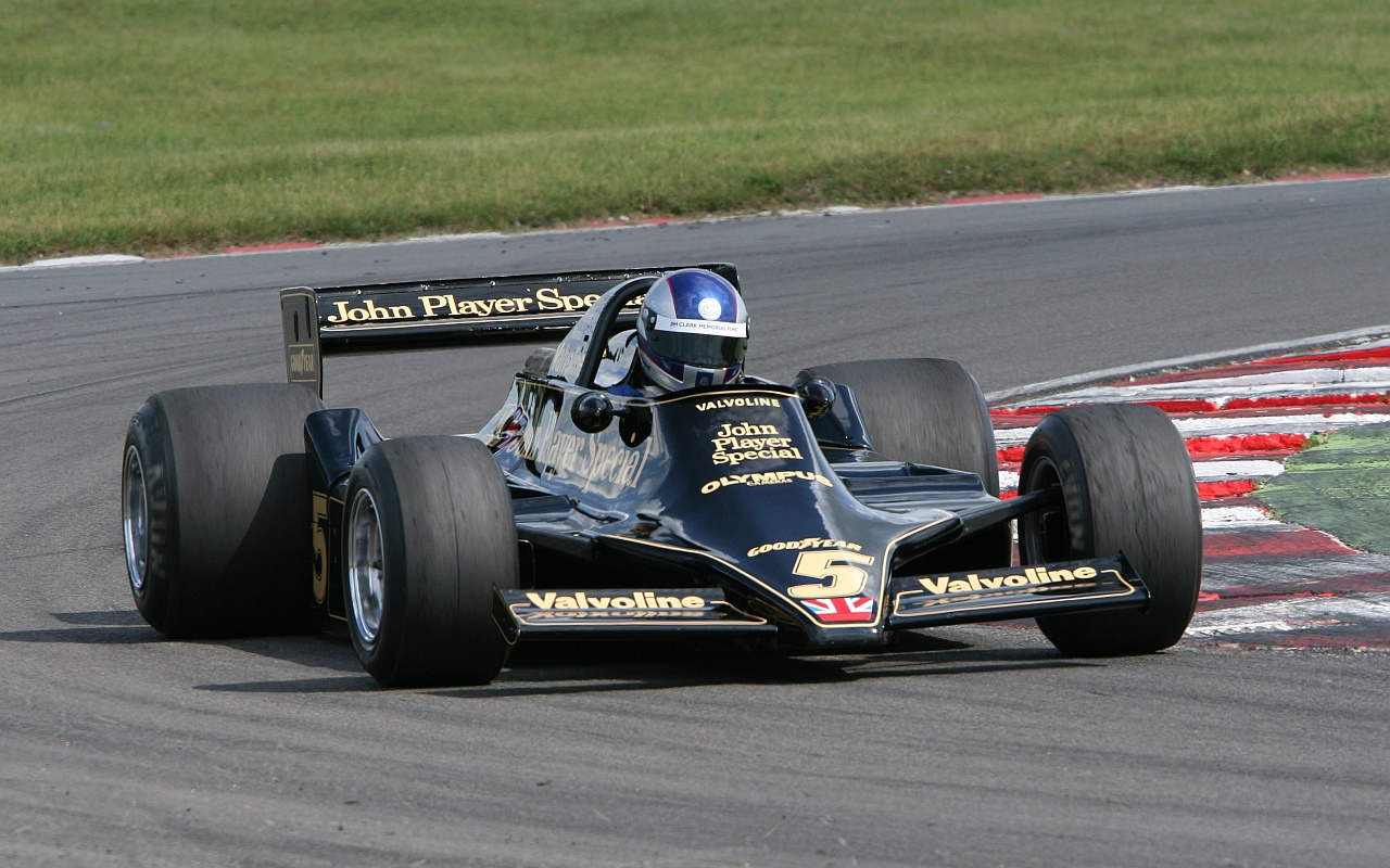 Lotus 76 at Snetterton